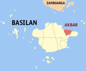 Map of the Basilan showing the location of Akbar